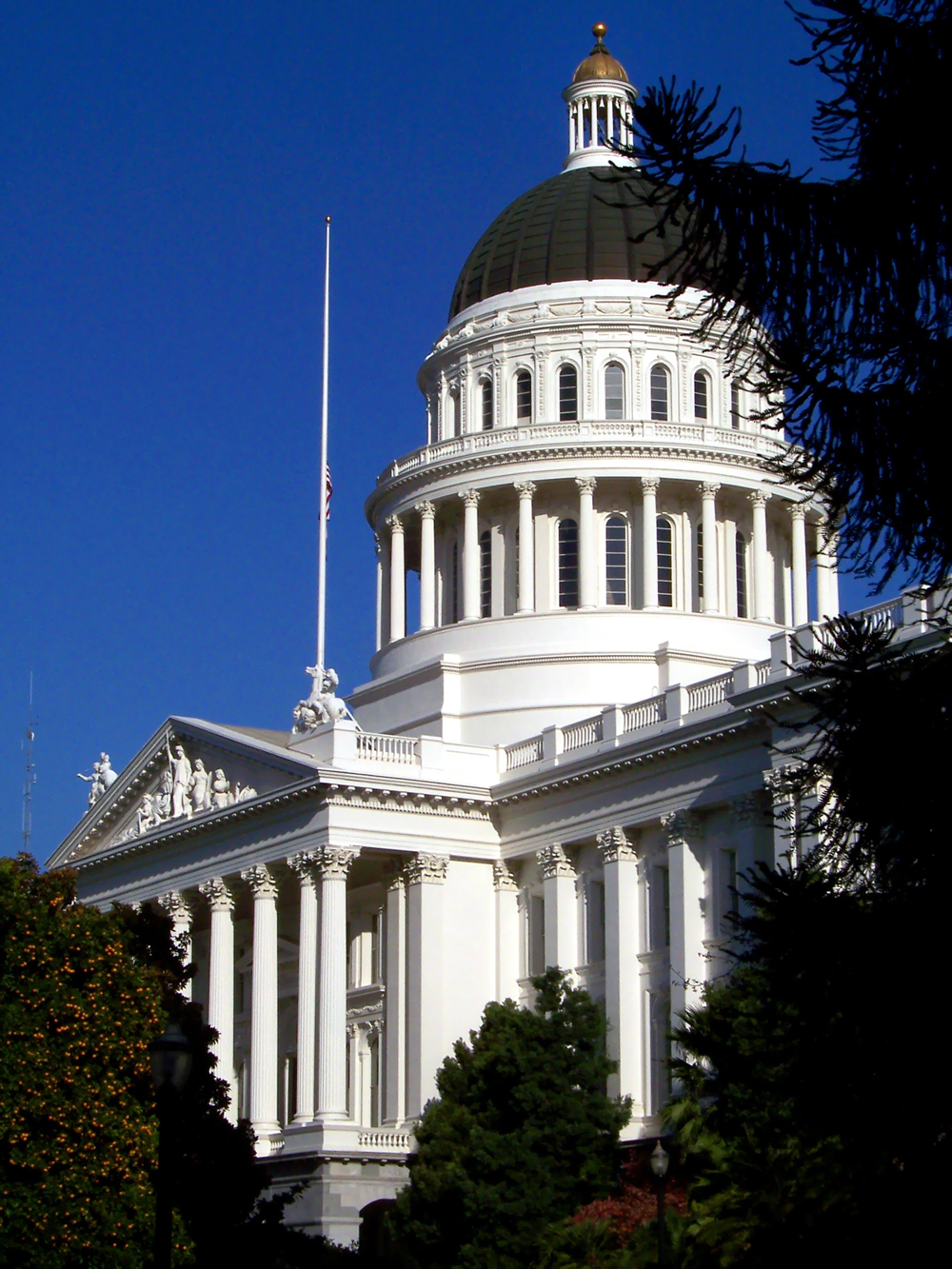 California State Capitol